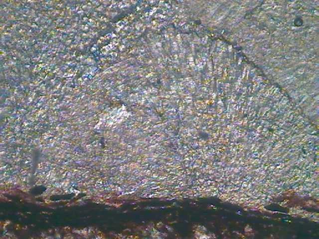 An unstained thin section of a coal ball from Ohio, United States of America. Calcite can be seen in the plant stem. The microscope magnification was at 50x with plain, polarised light.